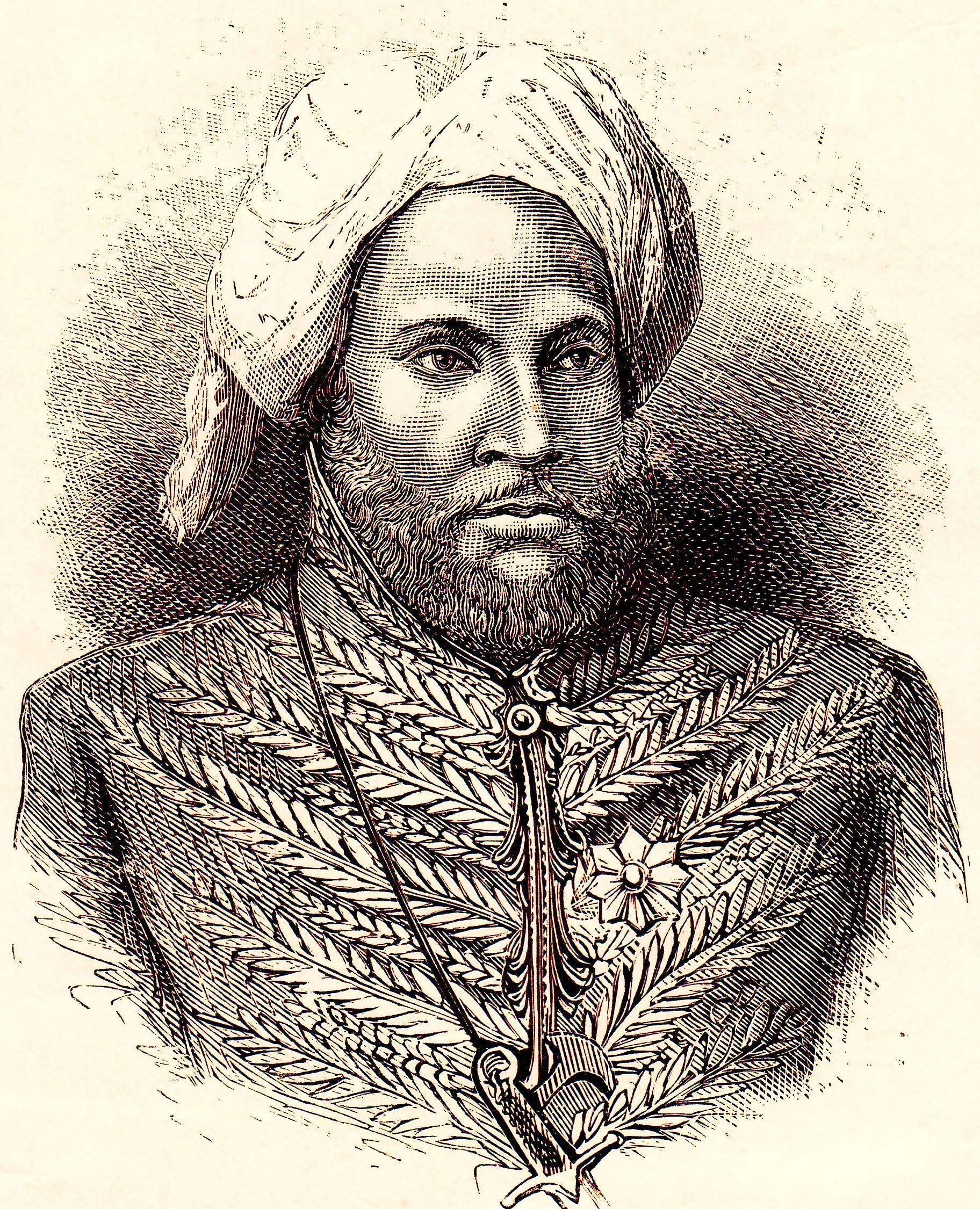 Habib Abdoe'r Rachman